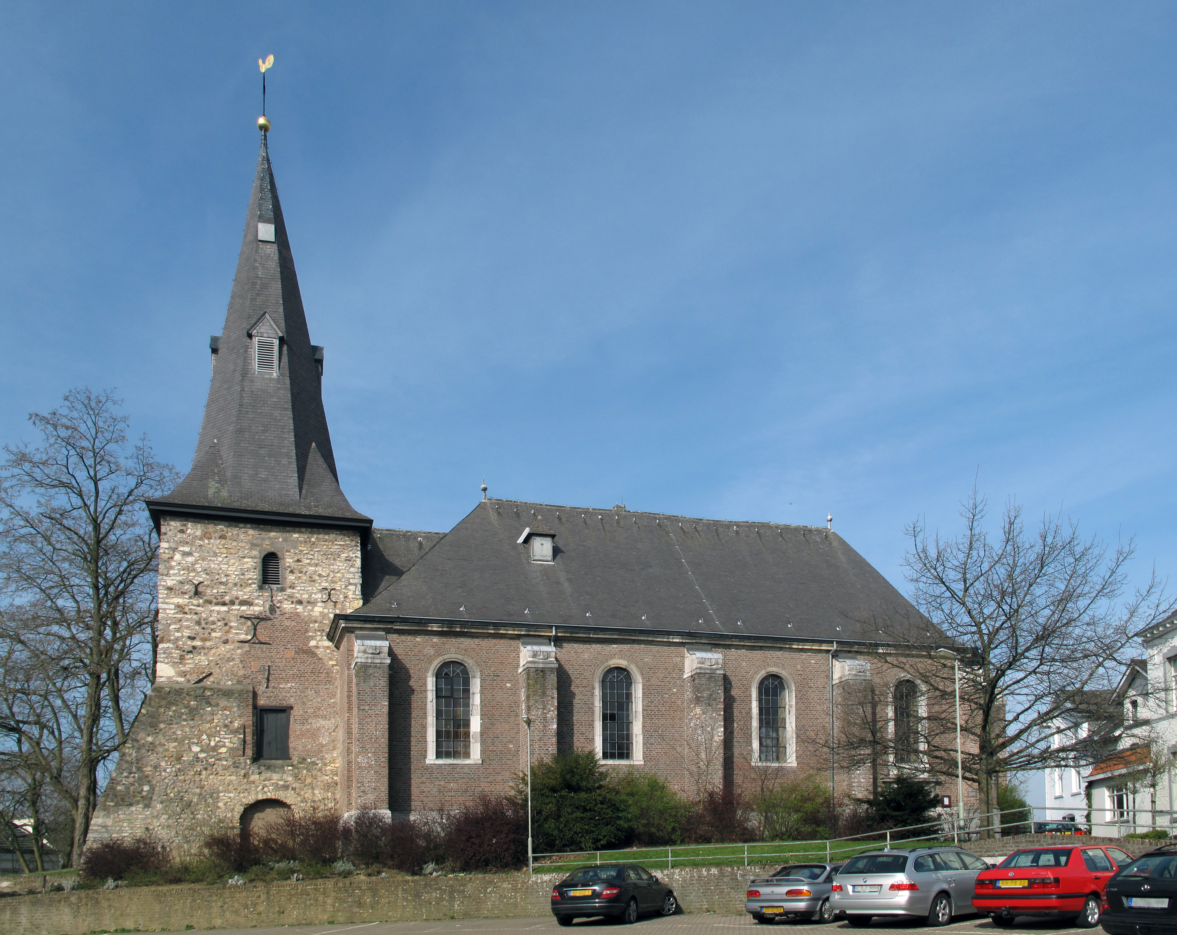 Vaals, church